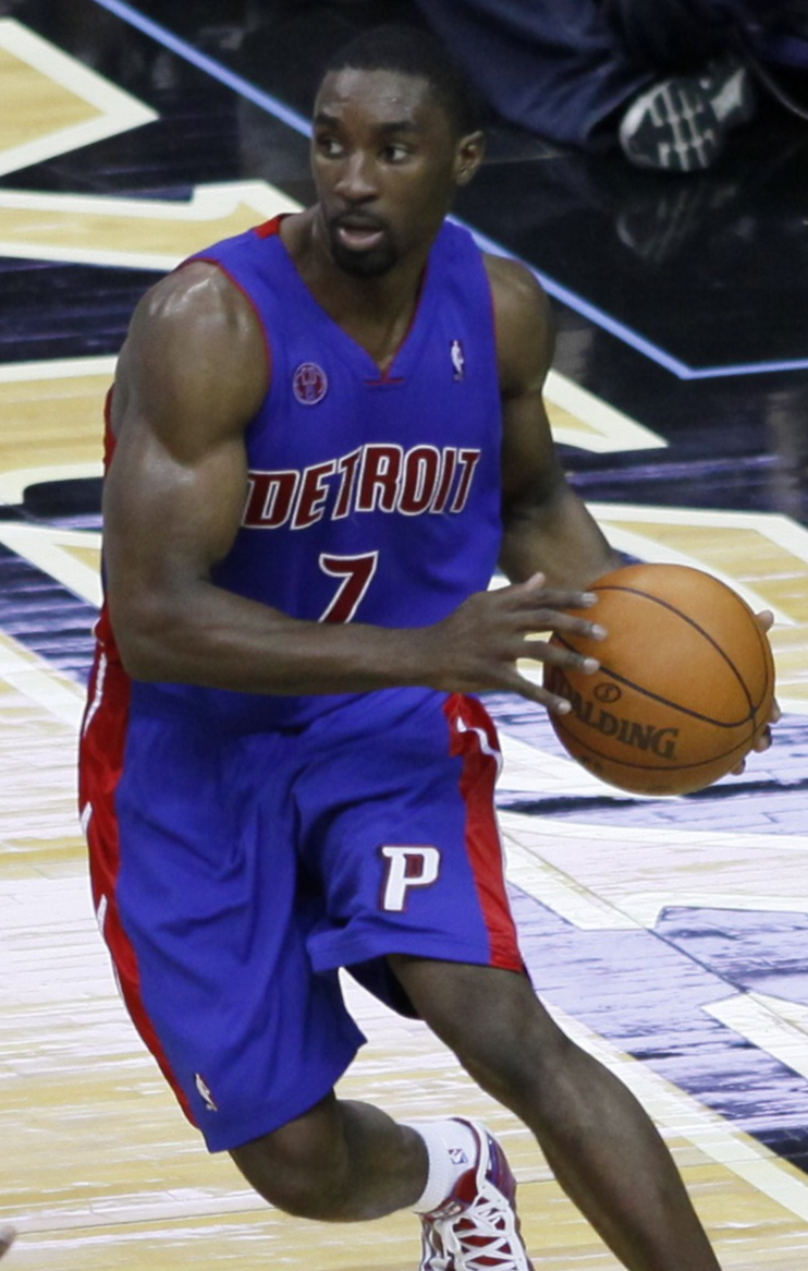 Washington Wizards v/s Detroit Pistons November 14, 2009 at Verizon Center in Washington, D.C.